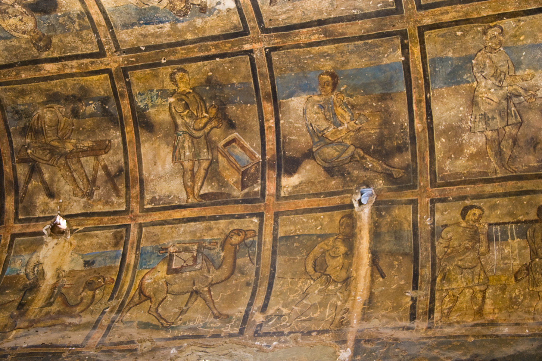 Smoke-damaged fresco in Qasr Amra — in Jordan. Palace ‘’hammam’’-bathhouse frescos — 8th-century Umayyad art.